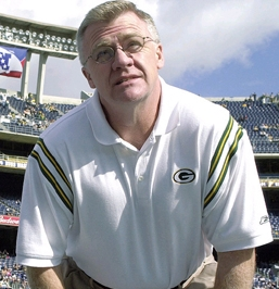 U.S. Marine Corps Sgt. Jason Wittling, who was injured during Operation Iraqi Freedom, meets with Green Bay Packers head coach Mike Sherman Dec. 13, 2003, before a game against the Chargers. U.S. Marine Corps photo by Daniel Raifsnider.